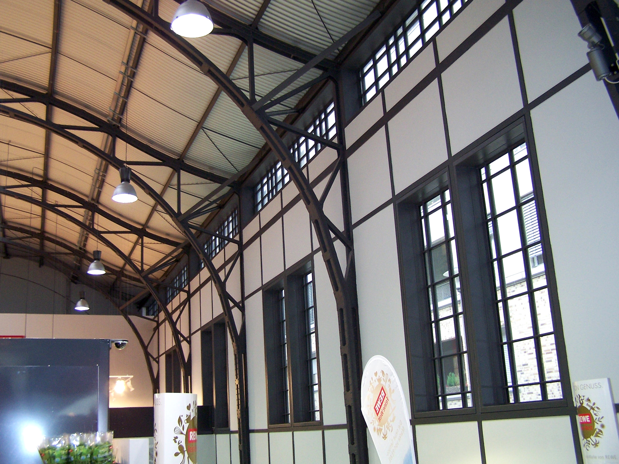 Hall wall in the former tram depot in Frankfurt am Main-Bornheim in December 2009